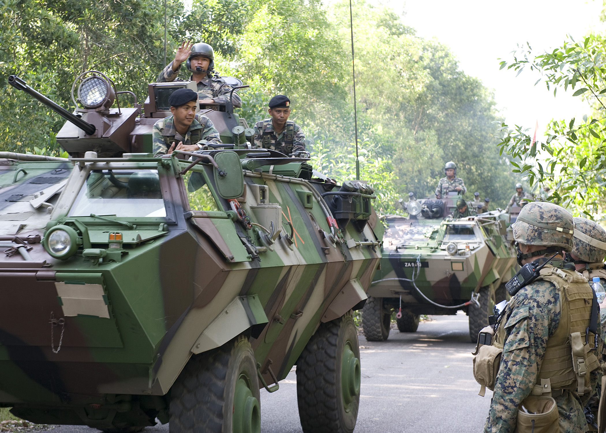 9th Royal Malay Regiment soldiers wave farewell to U.S. Marines at the conclusion of a joint amphibious landing exercise on the final day of the Malaysian phase of Cooperation Afloat Readiness and Training (CARAT), a series of bilateral exercises held annually in Southeast Asia to strengthen relationships and enhance the operational readiness of the participating forces.